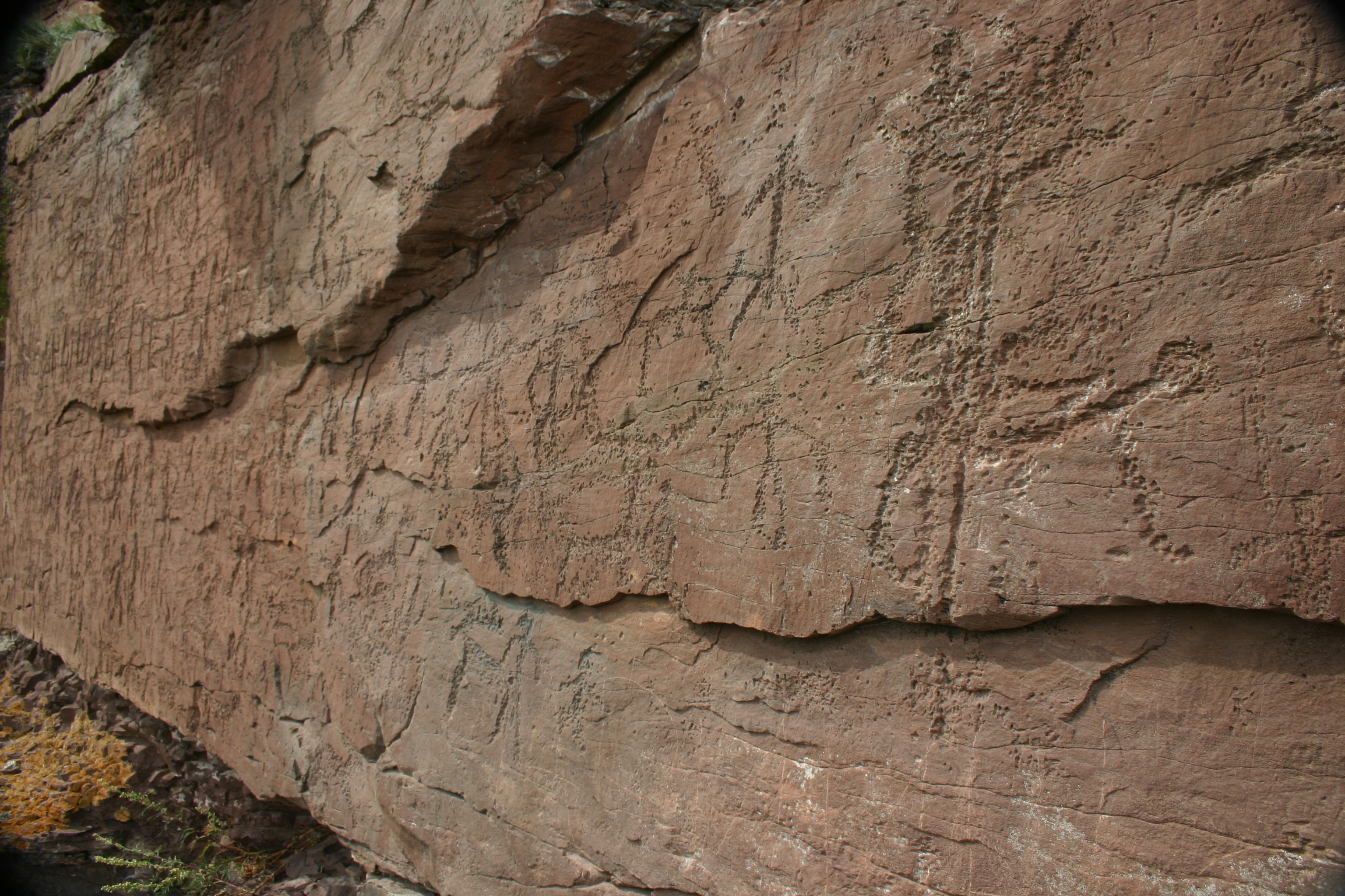 Fragment of Sulekskaya Pisanitsa. Republic of Khalassia